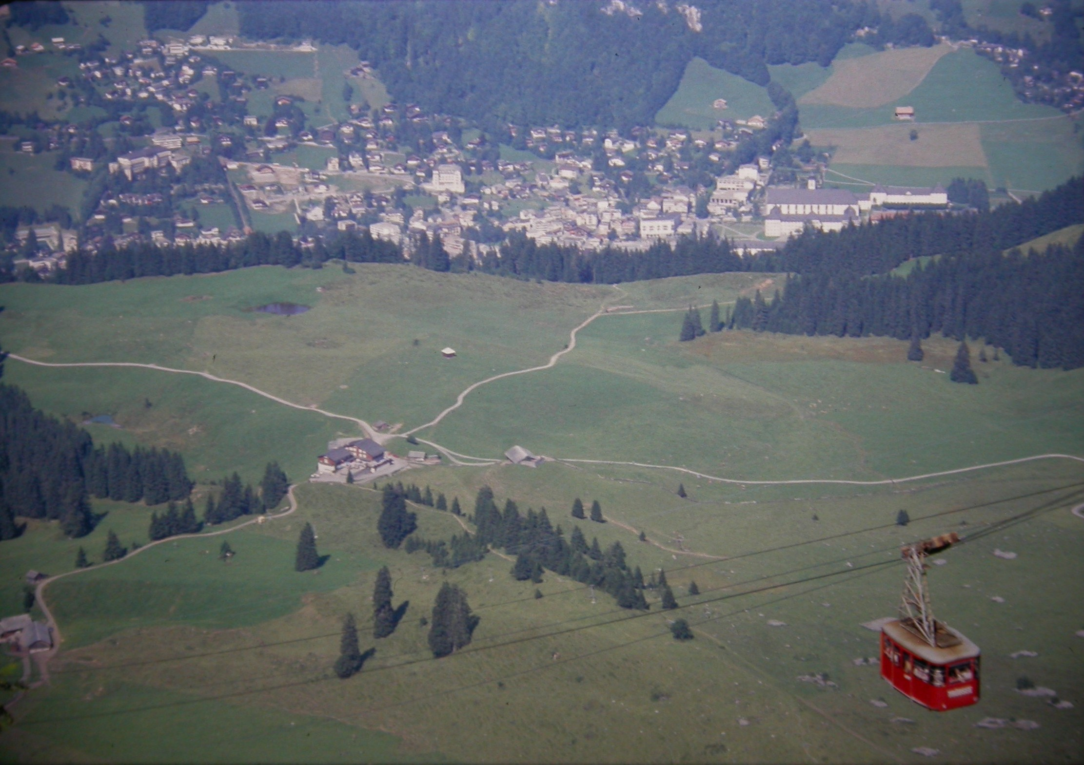 Engelberg